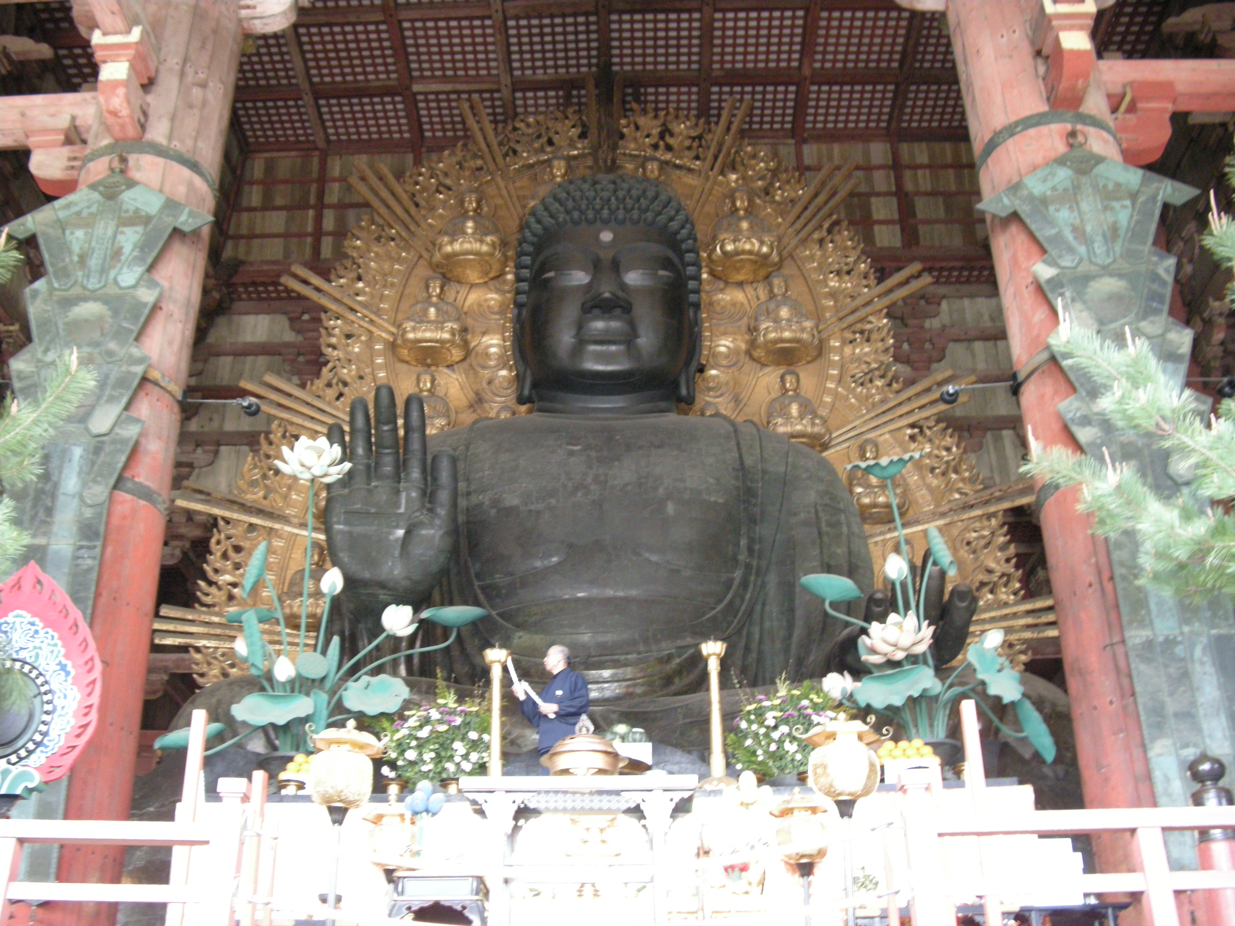 Picture of 大仏 (Daibutsu), the big Buddha, made by bronze and gold, il located in 東大寺 (Todai-ji) of 奈良 (Nara).